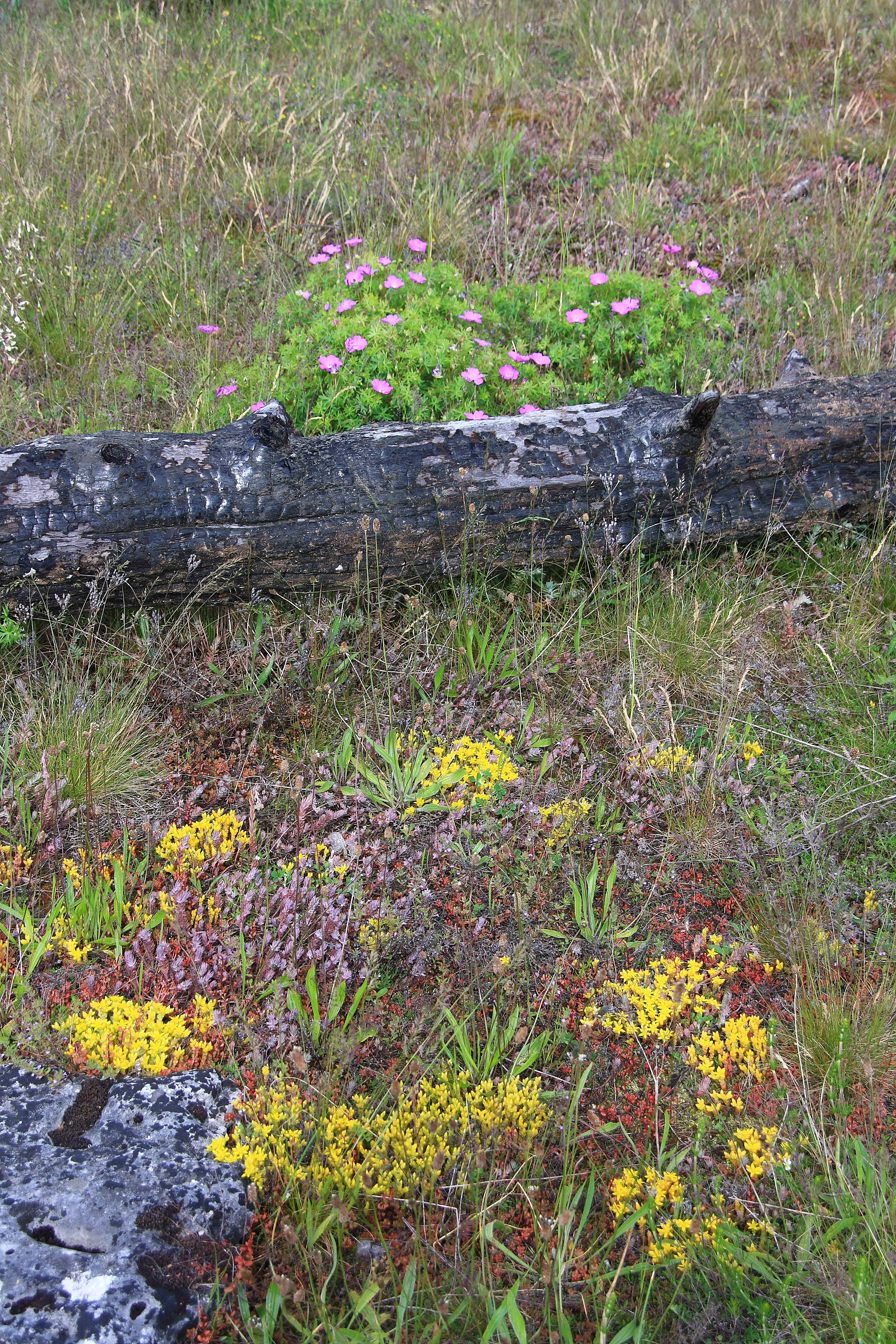 Plants and signs of the last forest fire at Torsburgen, Gotland.